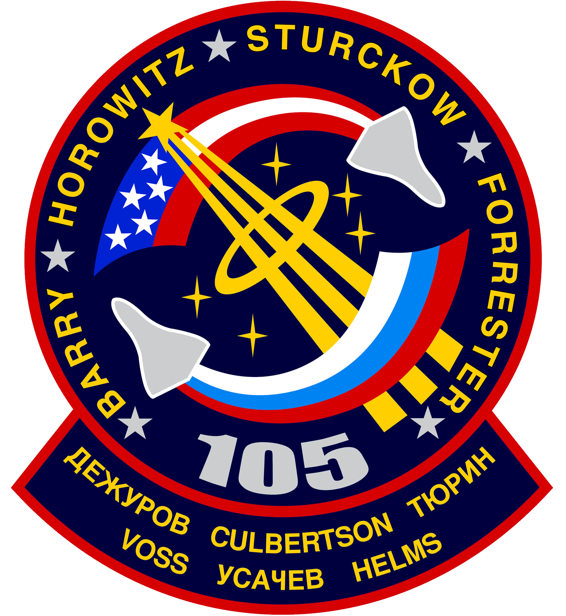 The STS-105 crew patch symbolizes the exchange of the Expedition Two and Expedition Three crews aboard the International Space Station. The three gold stars near the ascending Orbiter represent the U.S. commanded Expedition Three crew as they journey into space, while the two gold stars near the descending Orbiter represent the Russian commanded Expedition Two crew and their return to Earth. The plumes of each Orbiter represent the flags of the United States and Russia and symbolize the close cooperation between the two countries. The Astronaut Office symbol, a star with three rays of light, depicts the unbroken link between Earth and the newest and brightest star on the horizon, the International Space Station (ISS). The ascending and descending Orbiters form a circle that represents both the crew rotation and the continuous presence in space aboard the ISS. The names of the four astronauts who will crew Discovery are shown along the border of the patch. The names of the Expedition Three and Expedition Two crews are shown on the chevron at the bottom of the patch. The NASA insignia design for Shuttle flights is reserved for use by the astronauts and for other official use as the NASA Administrator may authorize. Public availability has been approved only in the form of illustrations by the various news media. When and if there is any change in this policy, which we do not anticipate, it will be publicly announced.